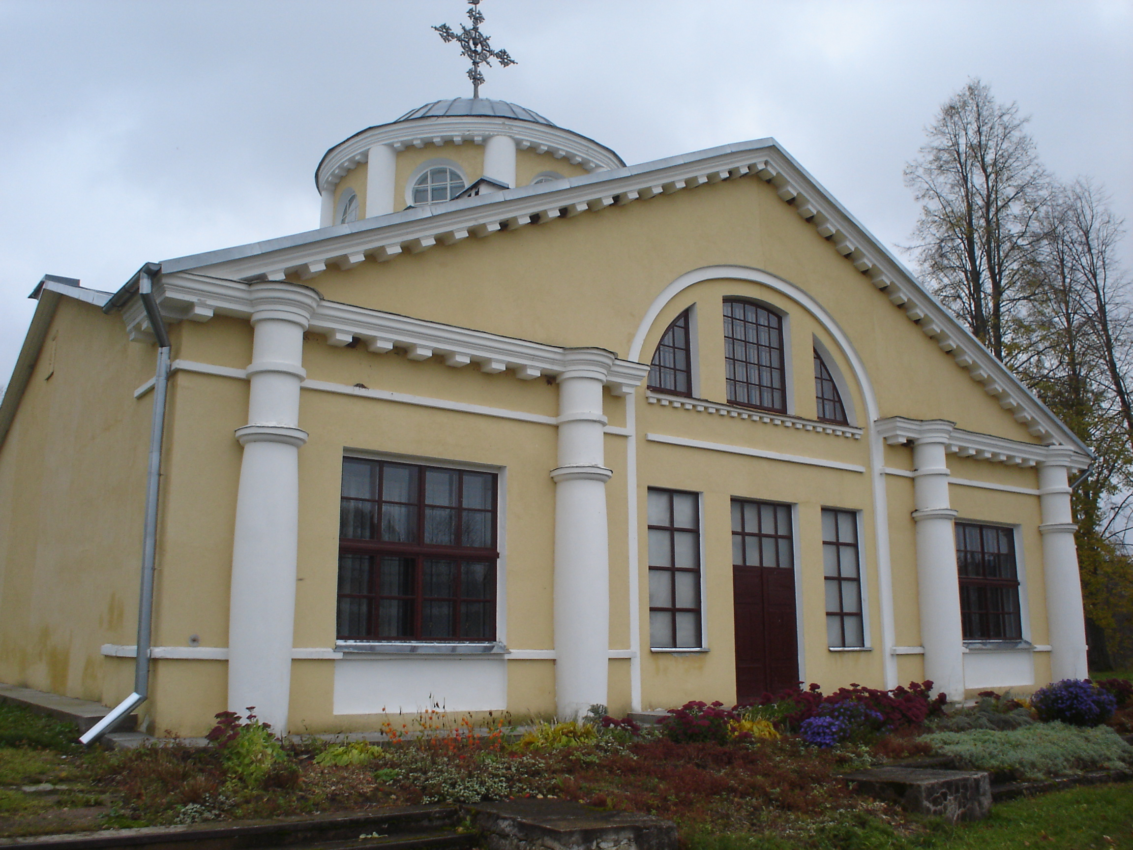 Zemgale train station. Main building. 2.